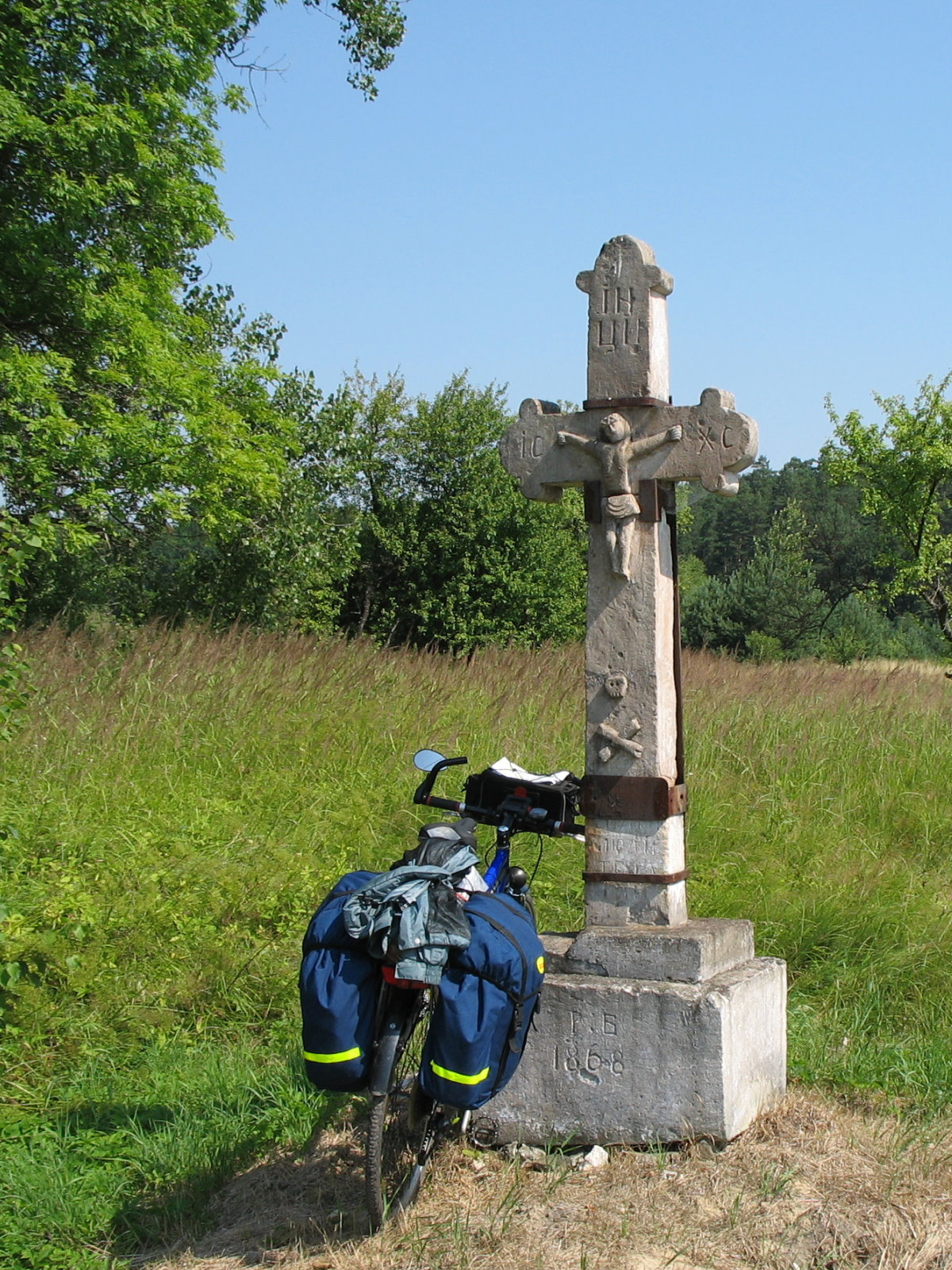 Prusie (Poland), Greek Catholic Cross